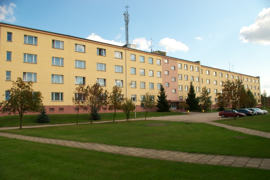 Campus in Higher Police School in Szczytno (Poland)